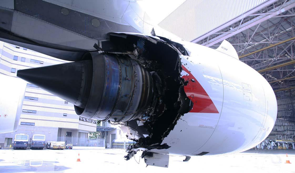 The left inboard Trent 900 engine of the Airbus A380 operating Qantas Flight 32 after the uncontained failure suffered on 4 November 2010 near Singapore.